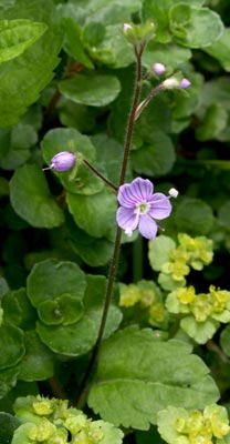 Veronica montana Author : Augustin Roche Source : [1]